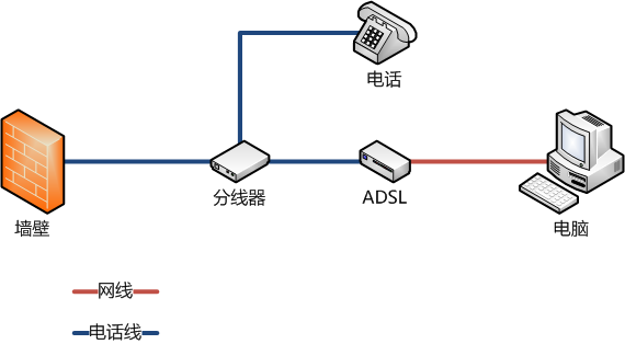 ADSL connection diagram